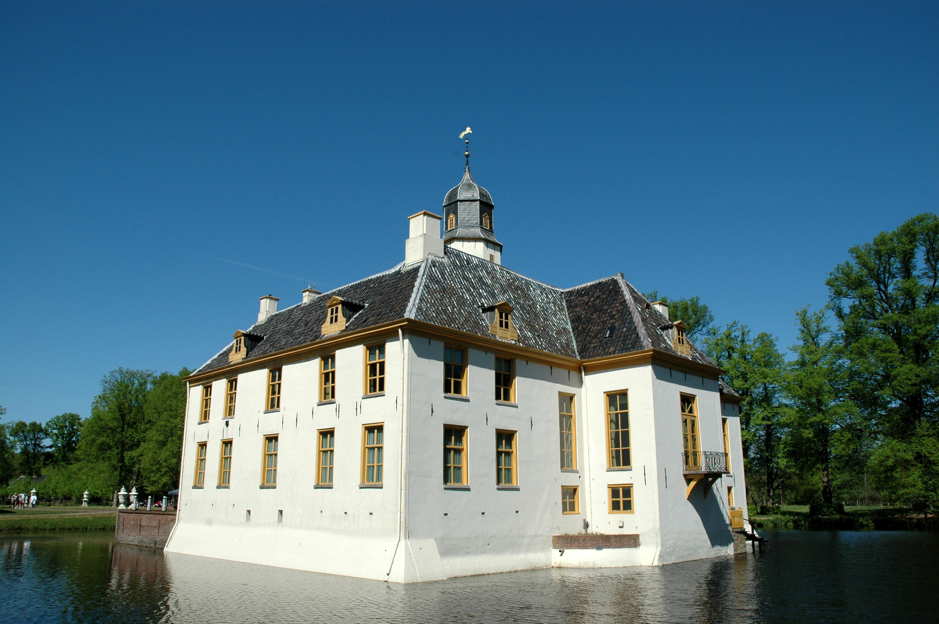 Fraeylemaborg: Fraeylemaborg is the most important of the Borgen in the province of Groningen, Netherlands. These places started in the middle ages to store harvests and protect these harvests from robbers. They were the only buildings that used stone and masonry (beside churches). In due time they grew to centres of power and riches. The borg is located in the middle of the town of Slochteren which gave its name to the largest gasfield in the world when it was discovered in 1959.